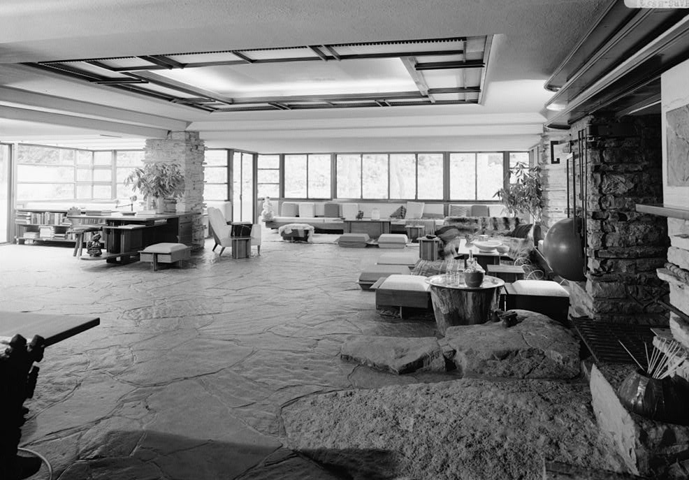 Fallingwater, State Route 381 (Stewart Township), Ohiopyle vicinity, Fayette County, PA - Living Room from Kitchen